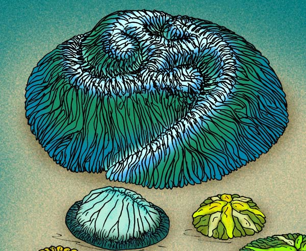 Reconstruction of the trilobozoan Ediacaran organisms, Tribrachidium heraldicum (top), Wigwamiella enigmatica (left), and Rugoconites enigmatica of Precambrian Ediacara Hills, Australia. (C) Stanton Fink